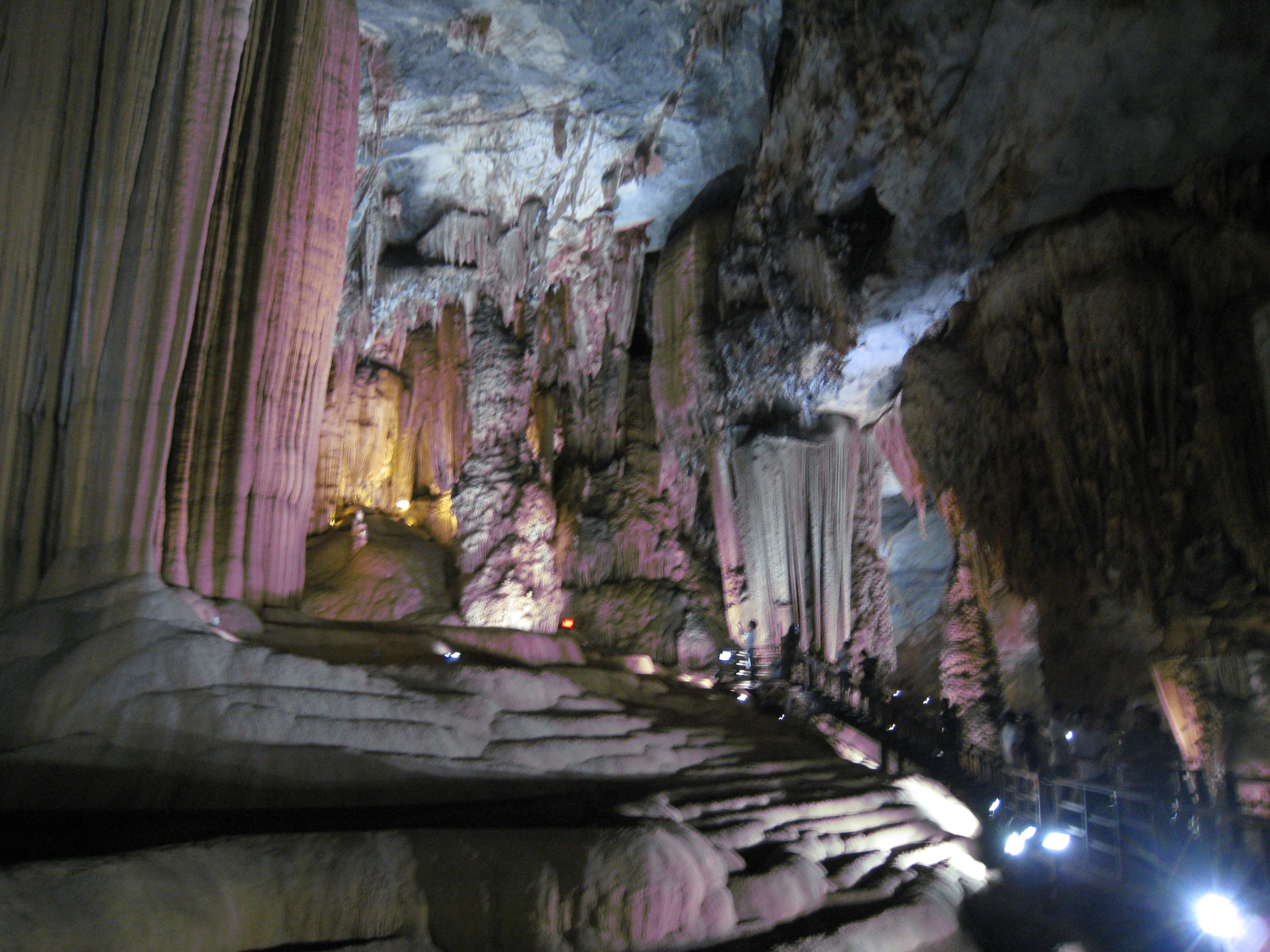 Thien Duong (Paradise) Cave in Phong Nha-Ke Bang National Park, Vietnam